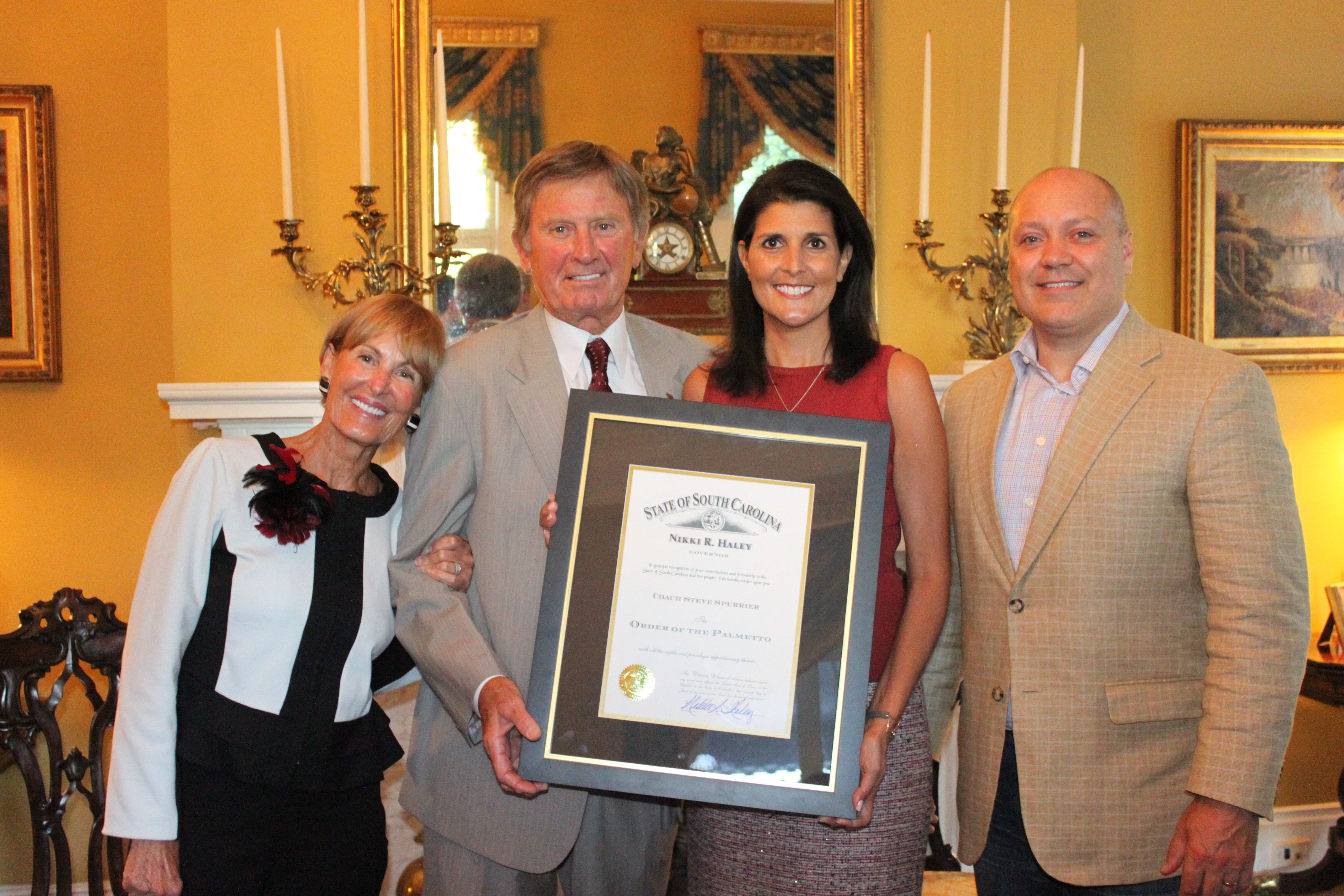 Coach Steve Spurrier Order of the Palmetto Reception. (Official Governor's Office Photo by Camlin Moore)